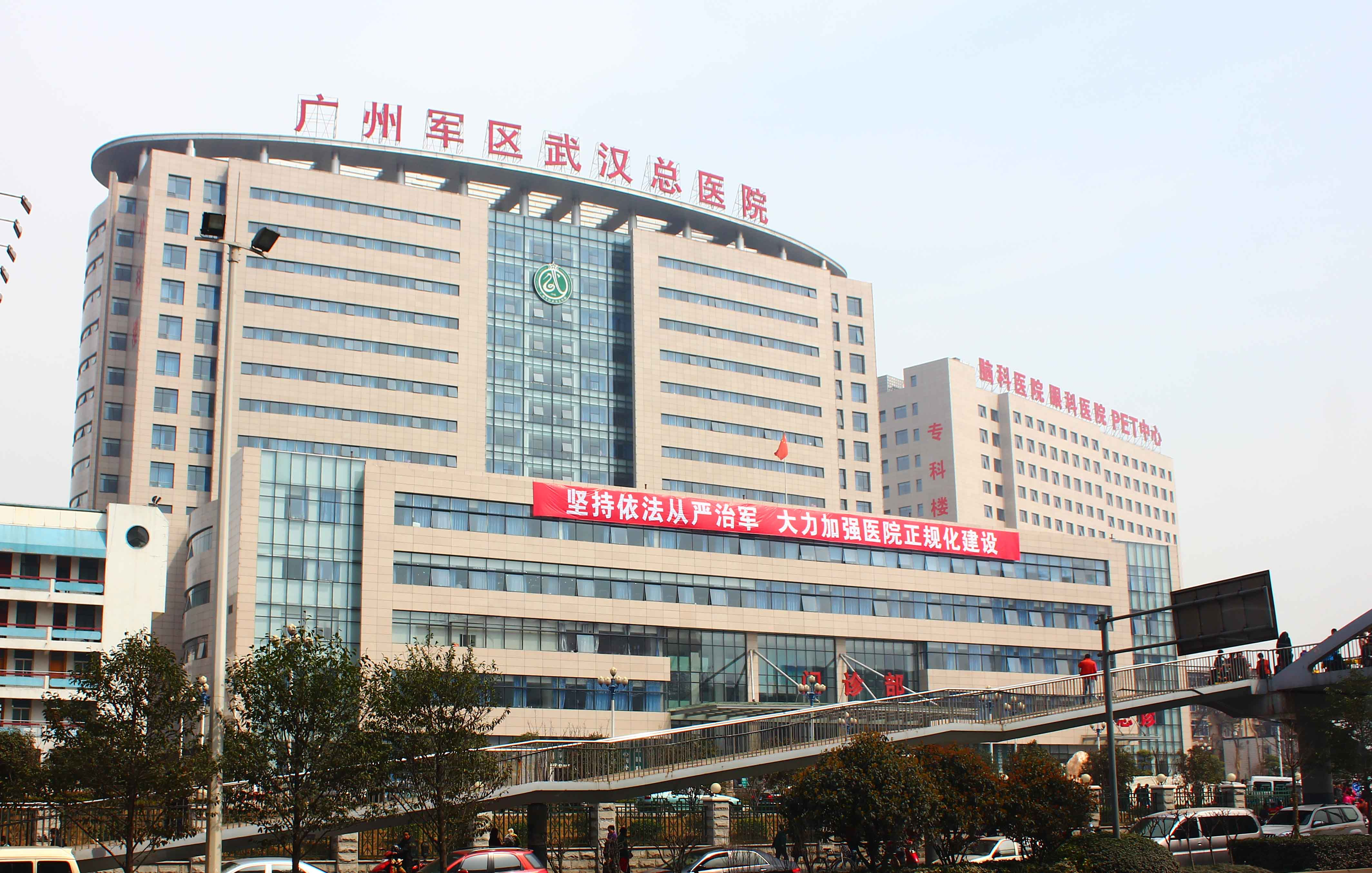 Wuhan Main Hospital of Guangzhou Military District. Located in Wuluo St, Wuhan